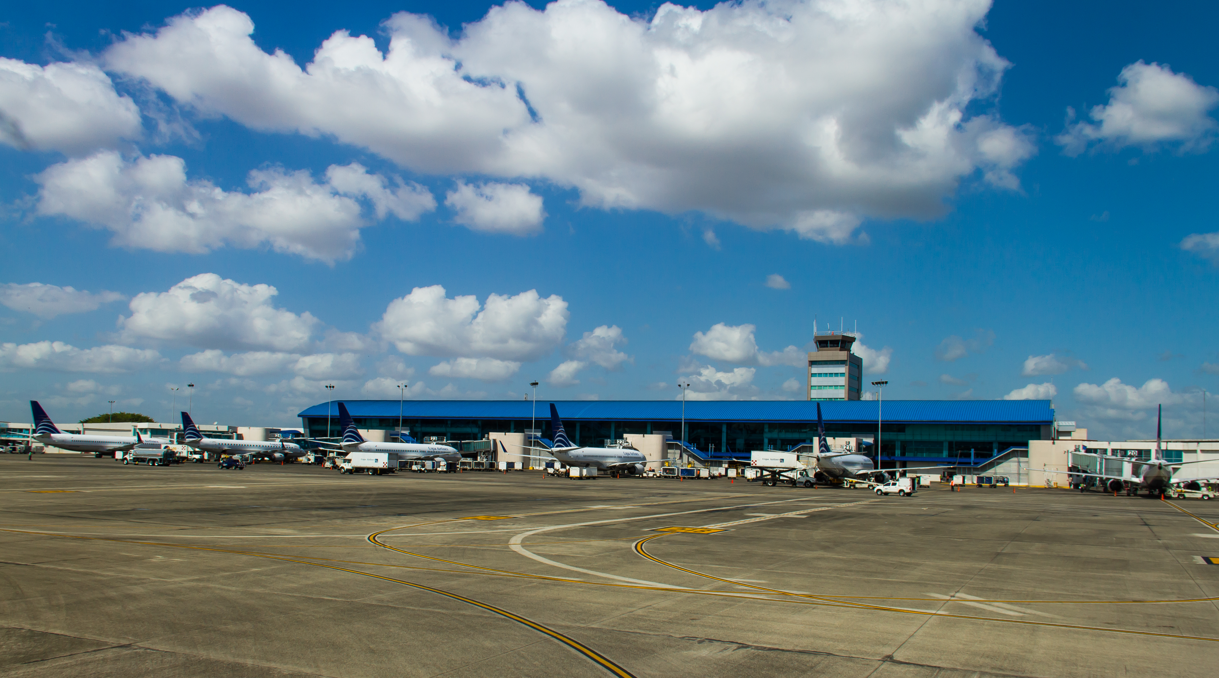 Tocumen Intl Airport (Panama City) Hub of Copa Airlines